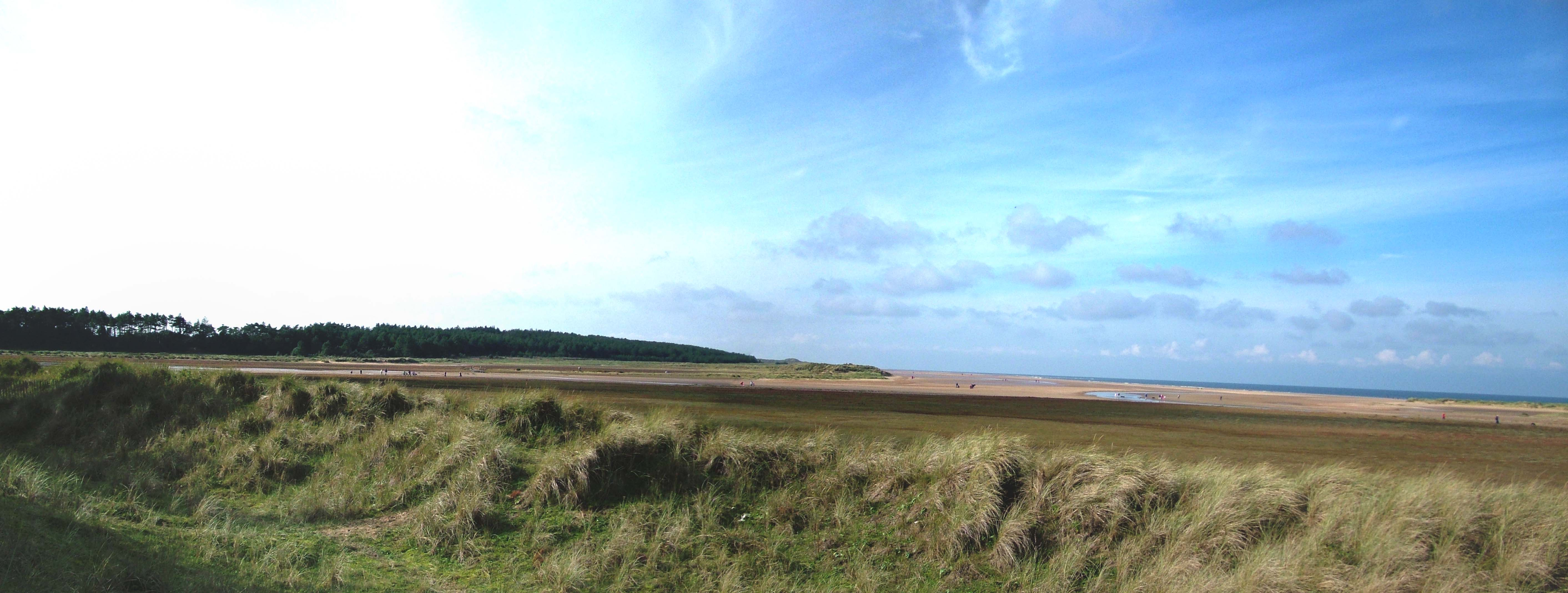 Photo of Holkham beach, taken and photomerged October 2006 by